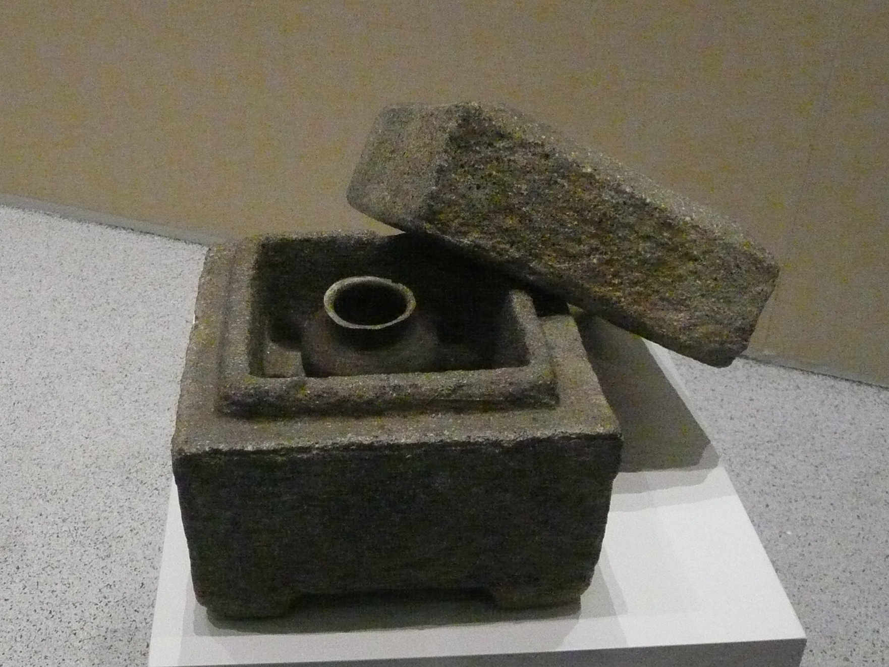 Stone box. Six stone boxes like this one were found buried beneath Candi Bukit Batu Pahat. The one displayed here had a copper container inside it, and underneath that some ritual objects made of gold and silver.